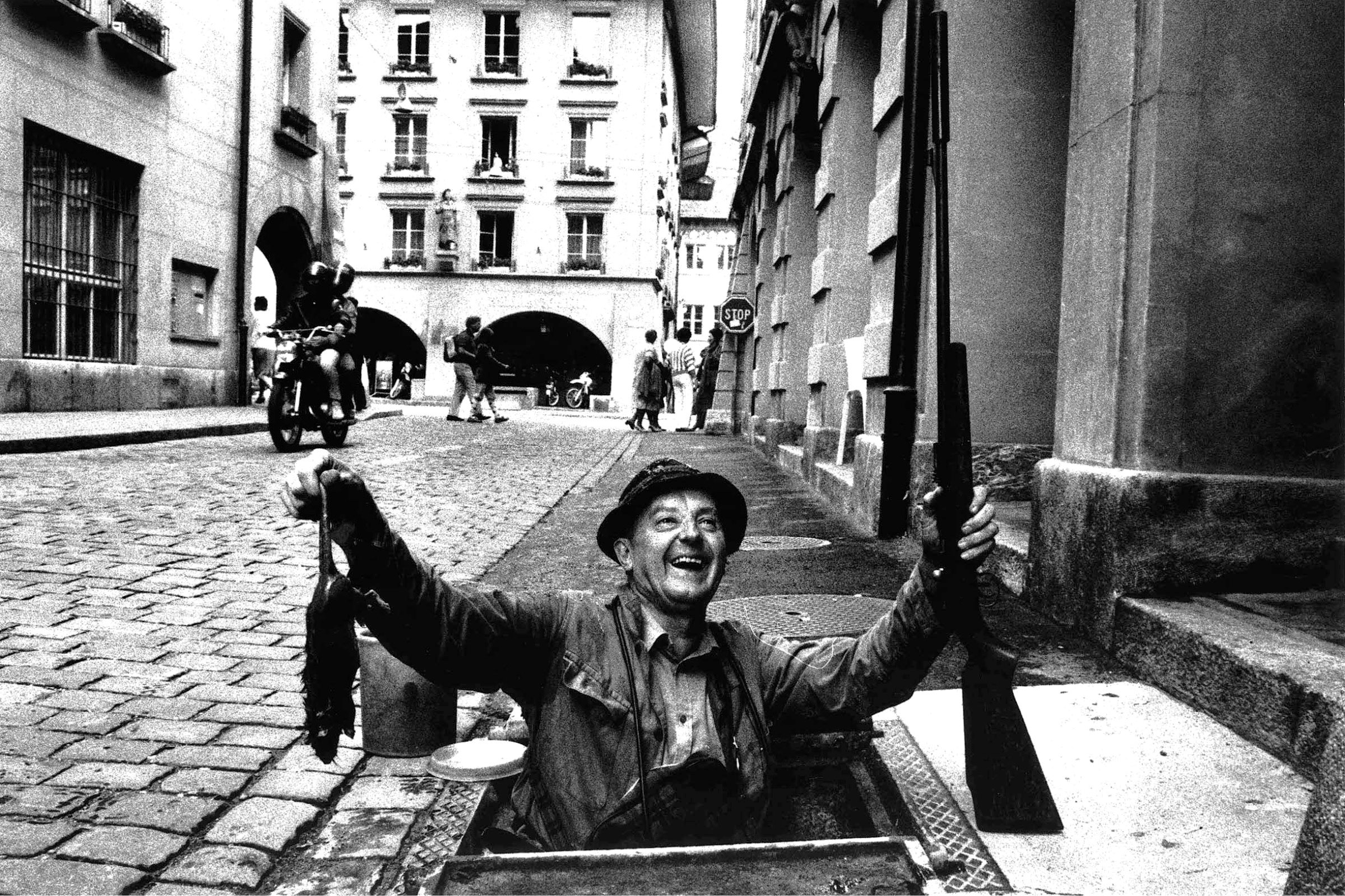 Rat Catcher with rat